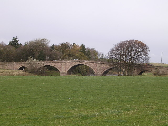 Hyndford Bridge, River Clyde. Where the A70, A73 and River Clyde all coincide